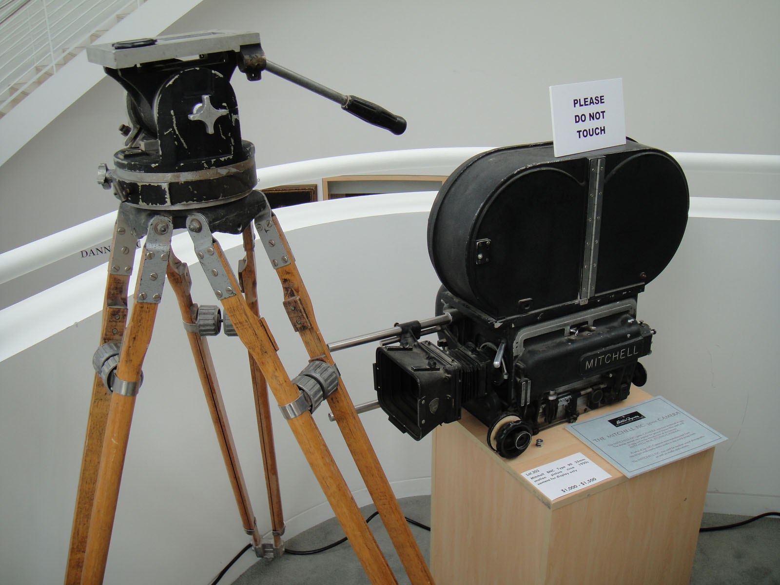 Mitchell NC 35mm camera circa 1950s at the Debbie Reynolds Auction Breaks Up Historic Hollywood Collection (The Paley Center for Media in Beverly Hills, Los Angeles, CA, USA).